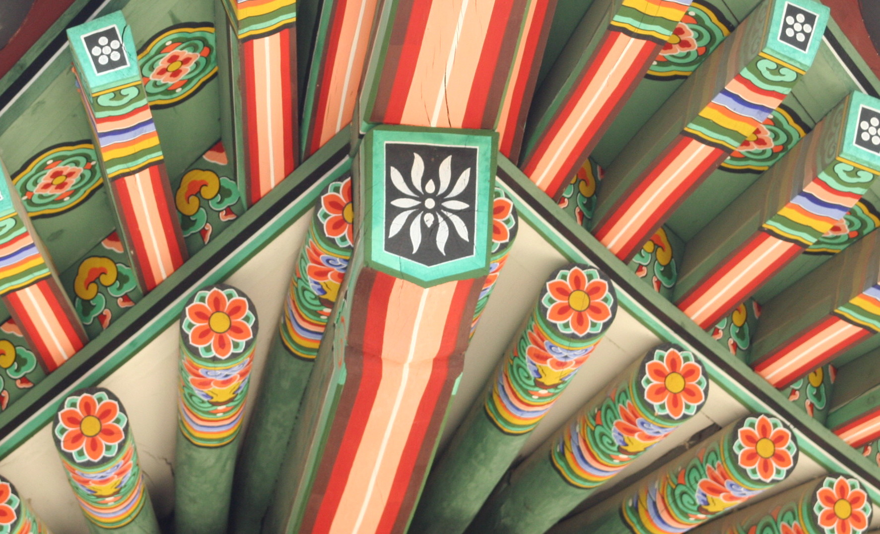 Construction of Changdeokgung was started in 1405 as a royal residence by King Taejong and it was completed in 1412.